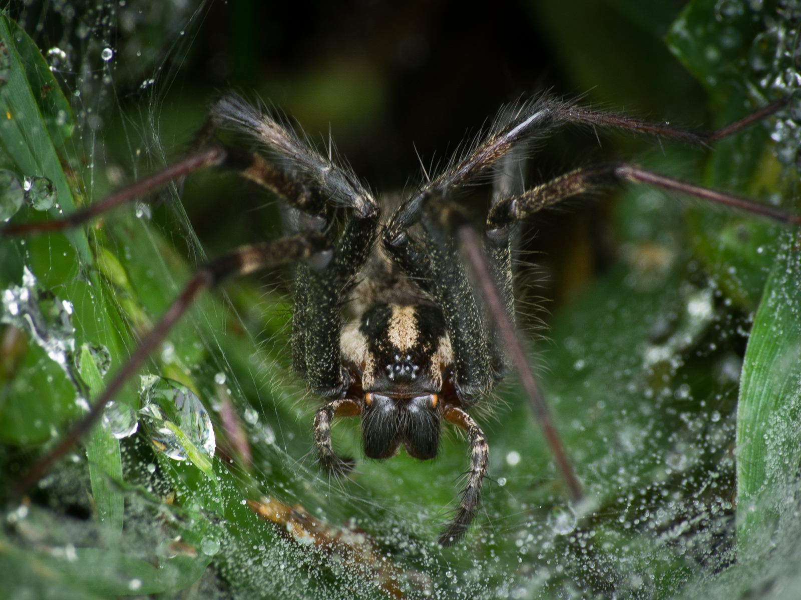 An American Funnel Web Grass Spider (Agelenopsis naevia) waits in the funnel portion of its web. Photo taken with an Olympus E-5 in Caldwell County, NC, USA. Cropping and post-processing performed with Adobe Lightroom.